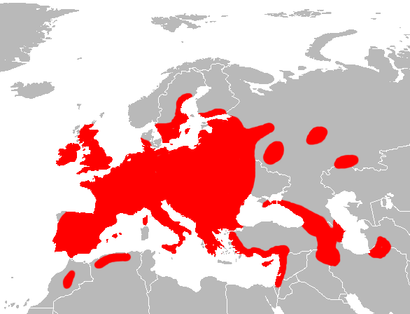 Distribution map of Myotis nattereri.